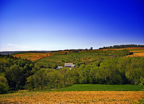 Farmstead, Albany Township, Berks County.